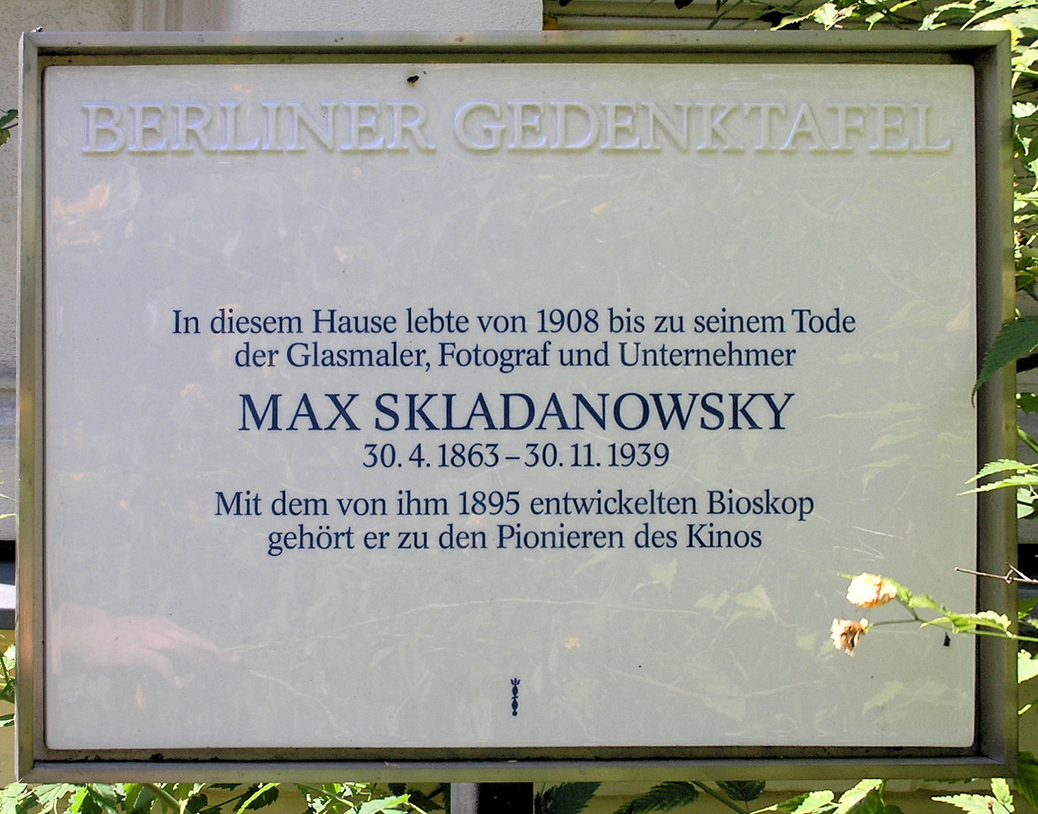 Berlin memorial plaque, Max Skladanowsky, Waldowstraße 28, Berlin-Niederschönhausen, Germany